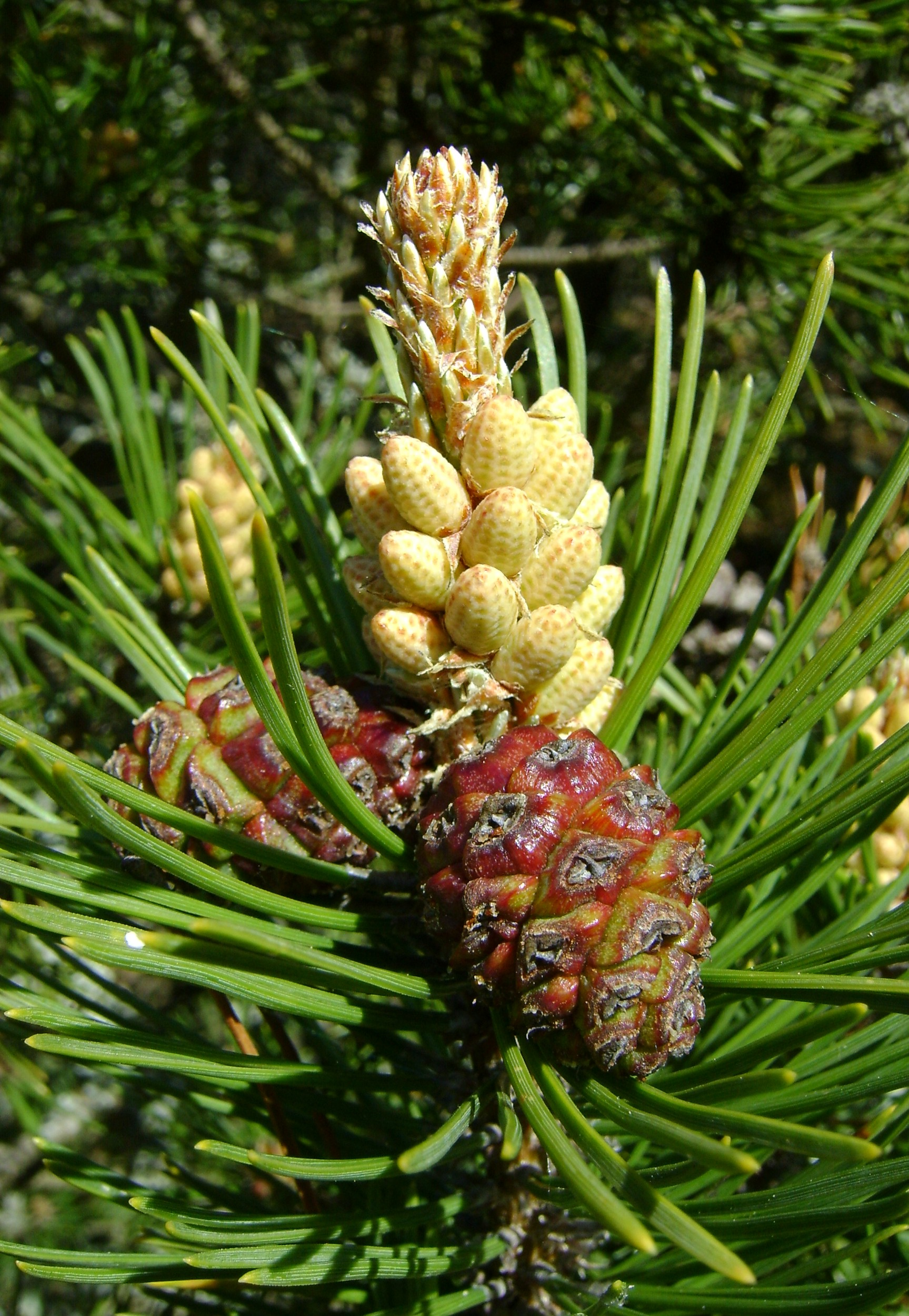 Pinus mugo flowers. Sand dunes near Ustka on Baltic sea coast (NW Poland)